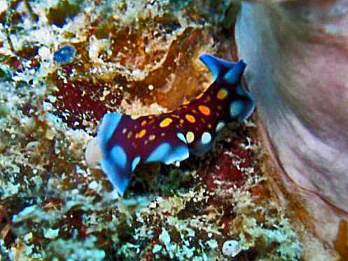 A live individual of Pseudoceros lindae, in situ off Madagascar